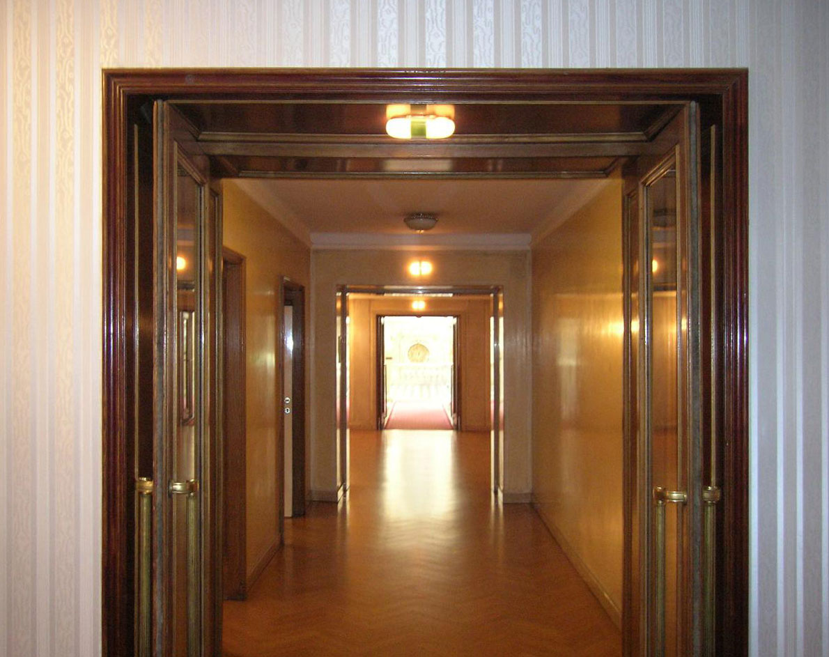 Austria, Vienna, Burgtheater